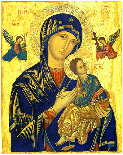 A more recent and accurate picture of Our Mother of Perpetual Help. Taken in 2009 using my own Camera, approved by the Parish at Saint Alphonse in Roma, Italia. 2009, my own work.